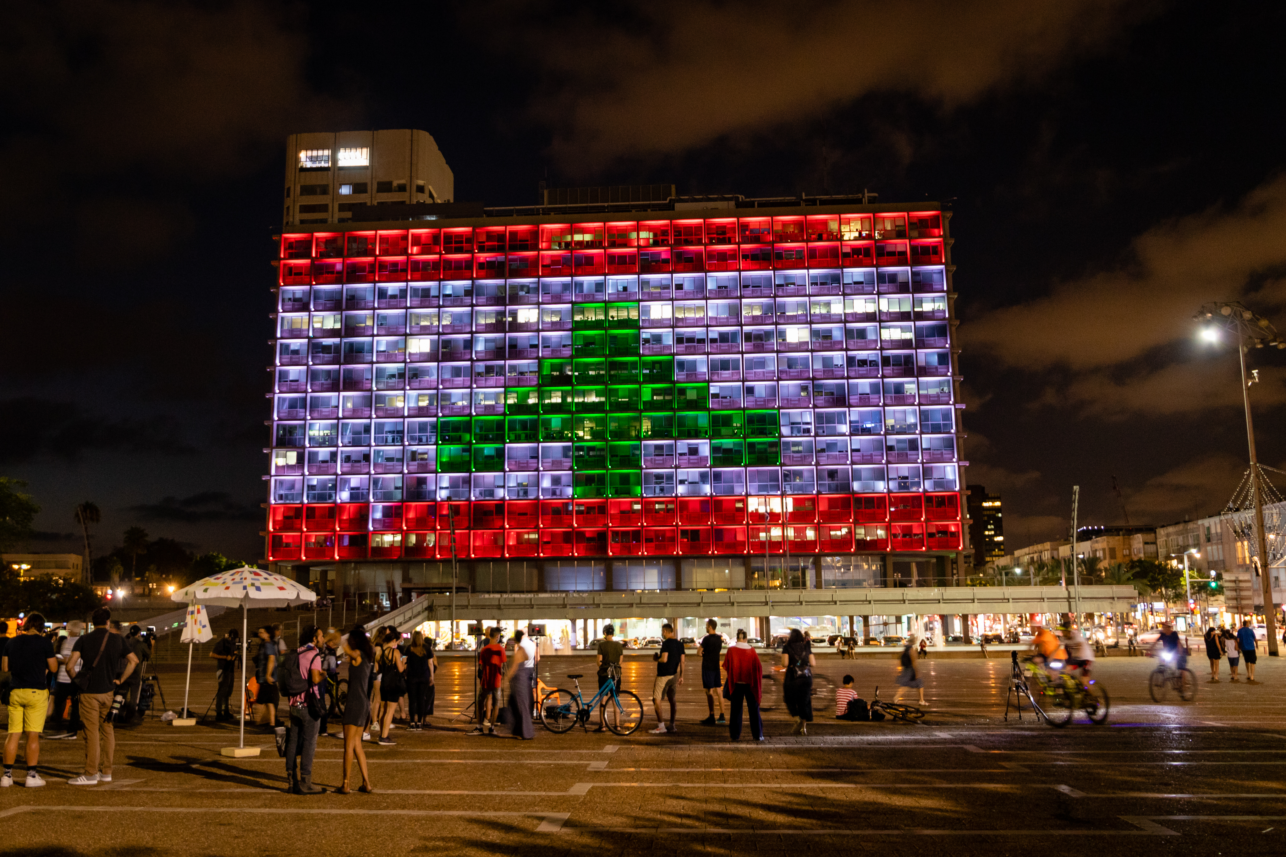 Tel Aviv City Hall illuminated with the Lebanese flag in solidarity with the people of Beirut